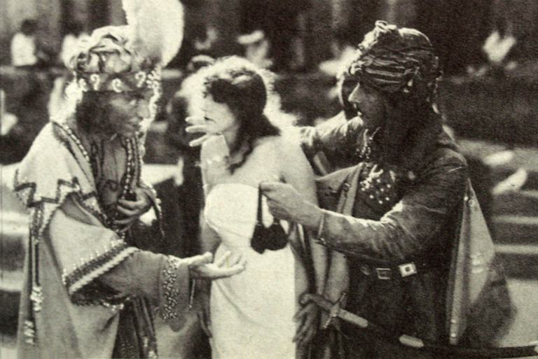 Actors Mark Price, Stuart Holmes, and Annette Kellerman (center) in the American film A Daughter of the Gods (1916).